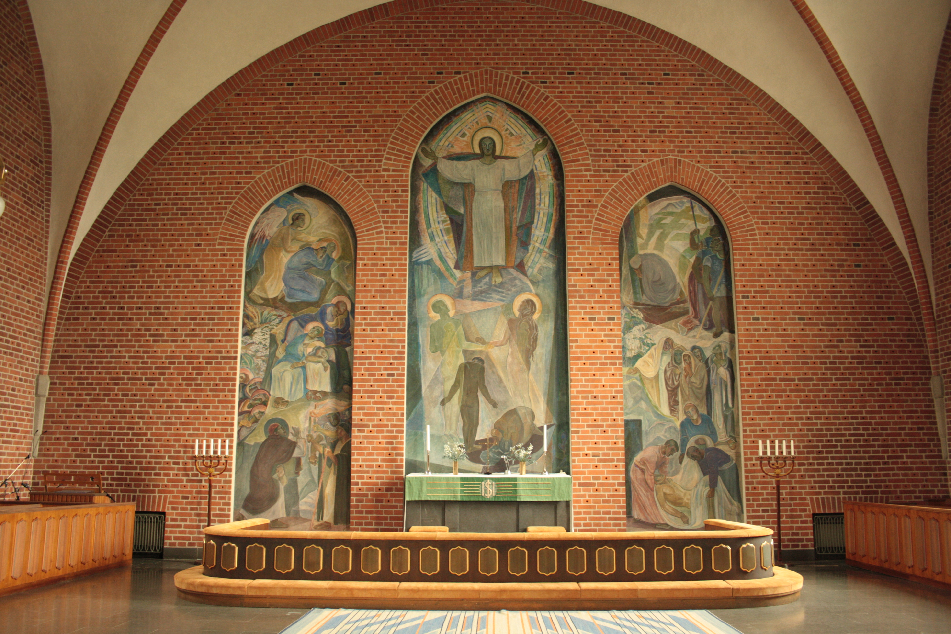 Burträsk church, Sweden. Altar